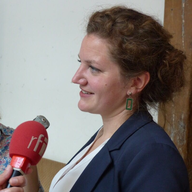 Green activist Marie Toussaint speaks to journalists during a press conference in Paris held by the NGO Notre Affaire A Tous